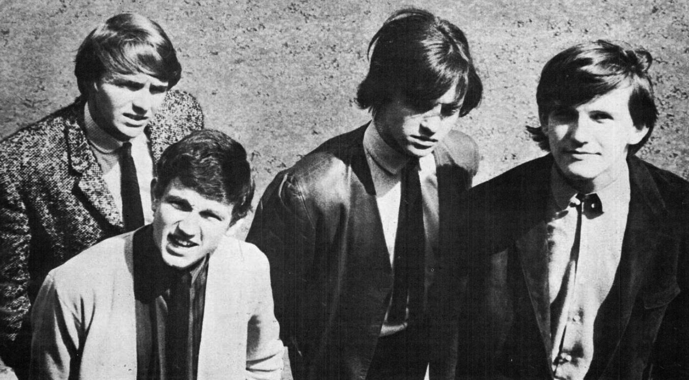 Trade ad for Wayne Fontana & The Mindbenders's single "She Needs Love". To better adapt it to his respective Wikipedia article, the ad was cropped and cleaned in a graphics editing program. The original can be viewed at the source below.